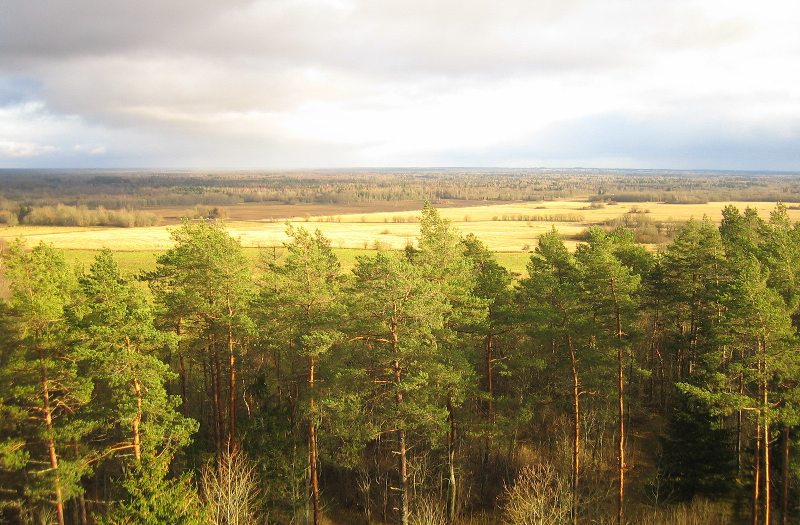 Emumäe landscape protection area, photographed from Emumäe view tower